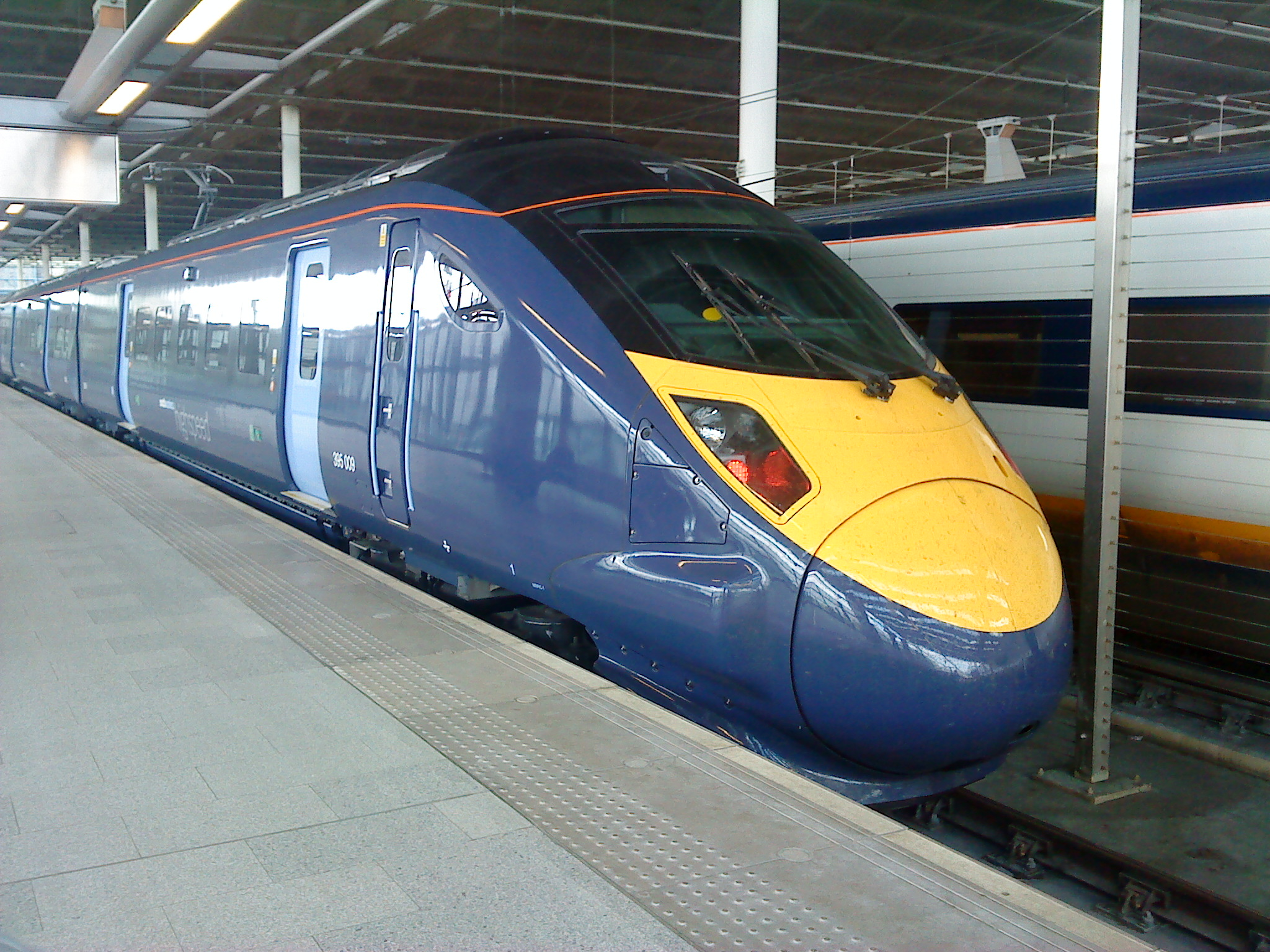 British Rail Class 395 "Javelin" at London St. Pancras in 2009